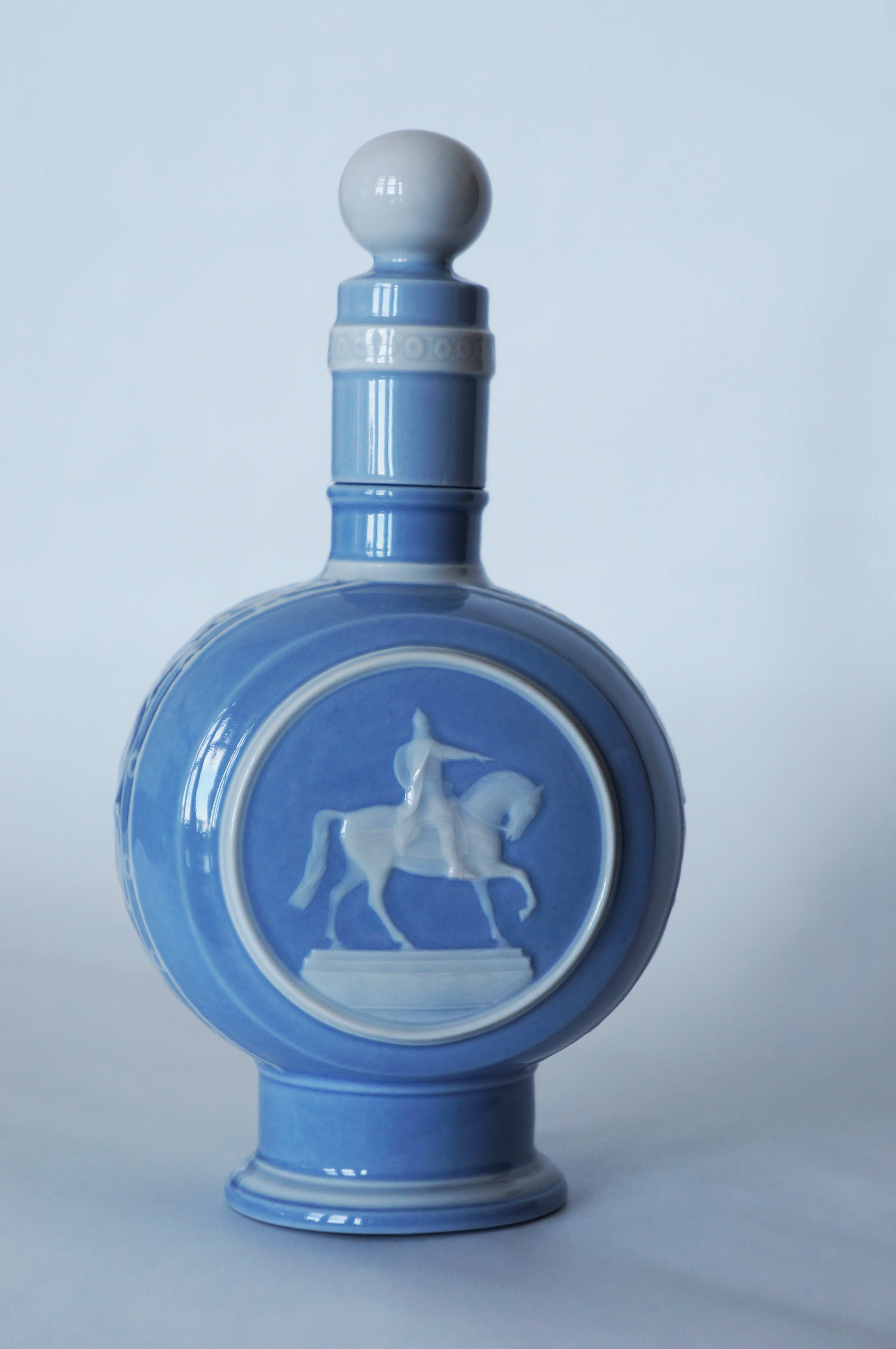 Porcelain. Author Bystrushkin B.D. Leningrad. USSR.